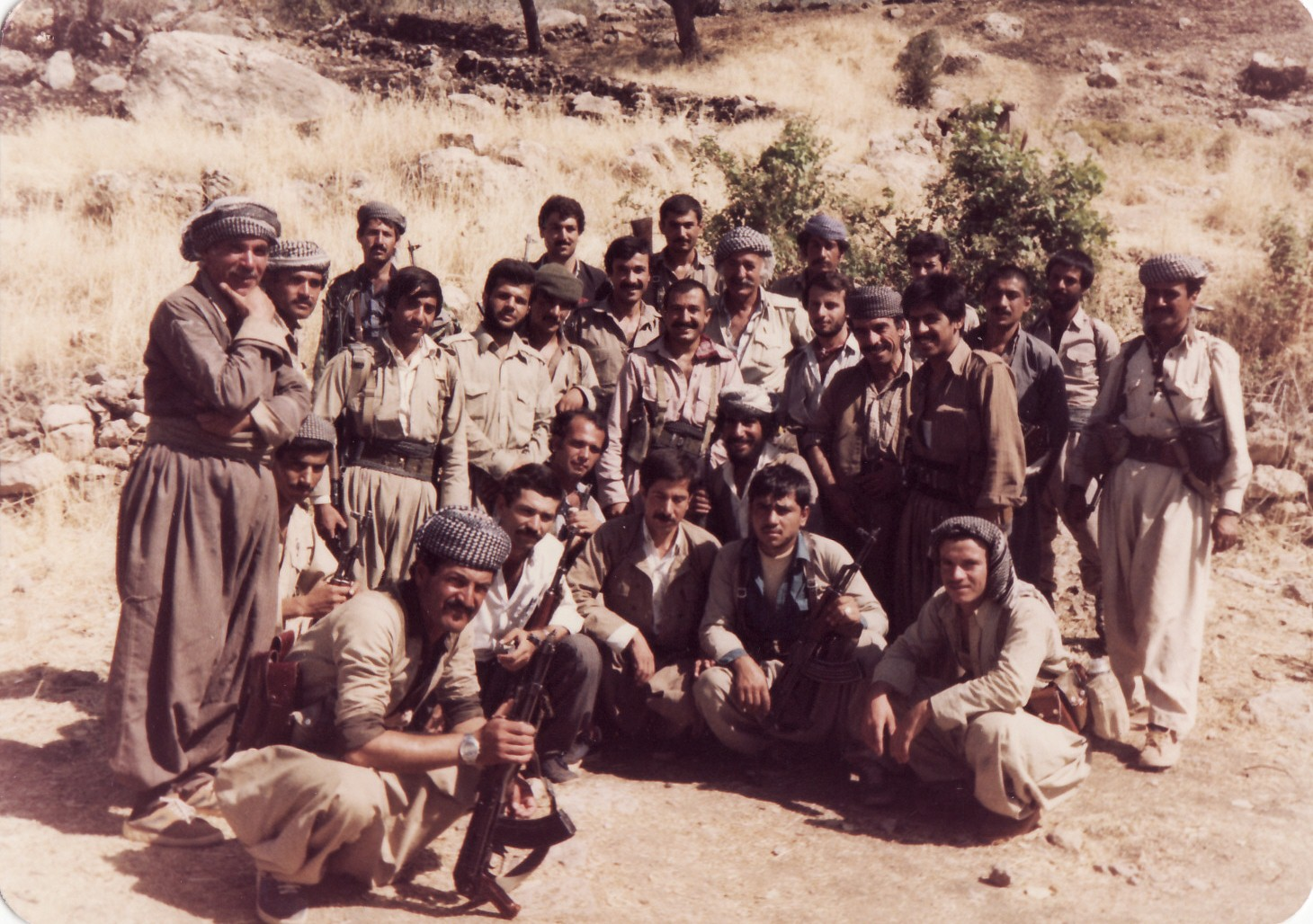 Partisans, northern Iraq, 1980s